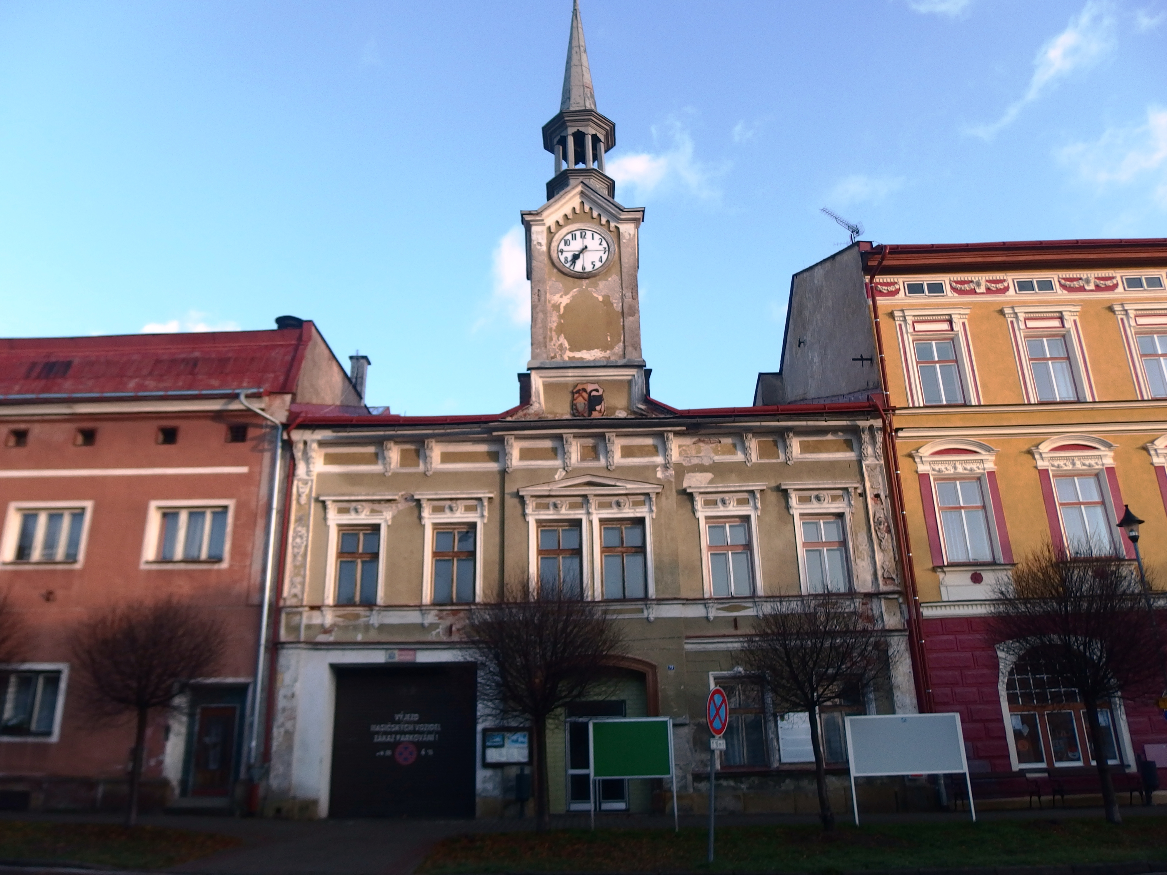 Svoboda nad Úpou, Trutnov District, Czech Republic. Town hall.